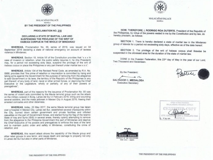 Proclamation Number 216 by Philippine President Rodrigo Duterte declaring martial law in Mindanao